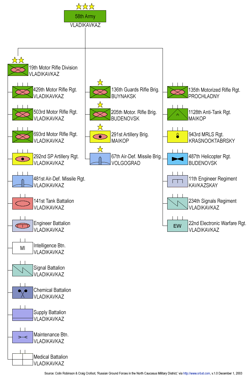 Structure 58th Army, Russian Ground Forces